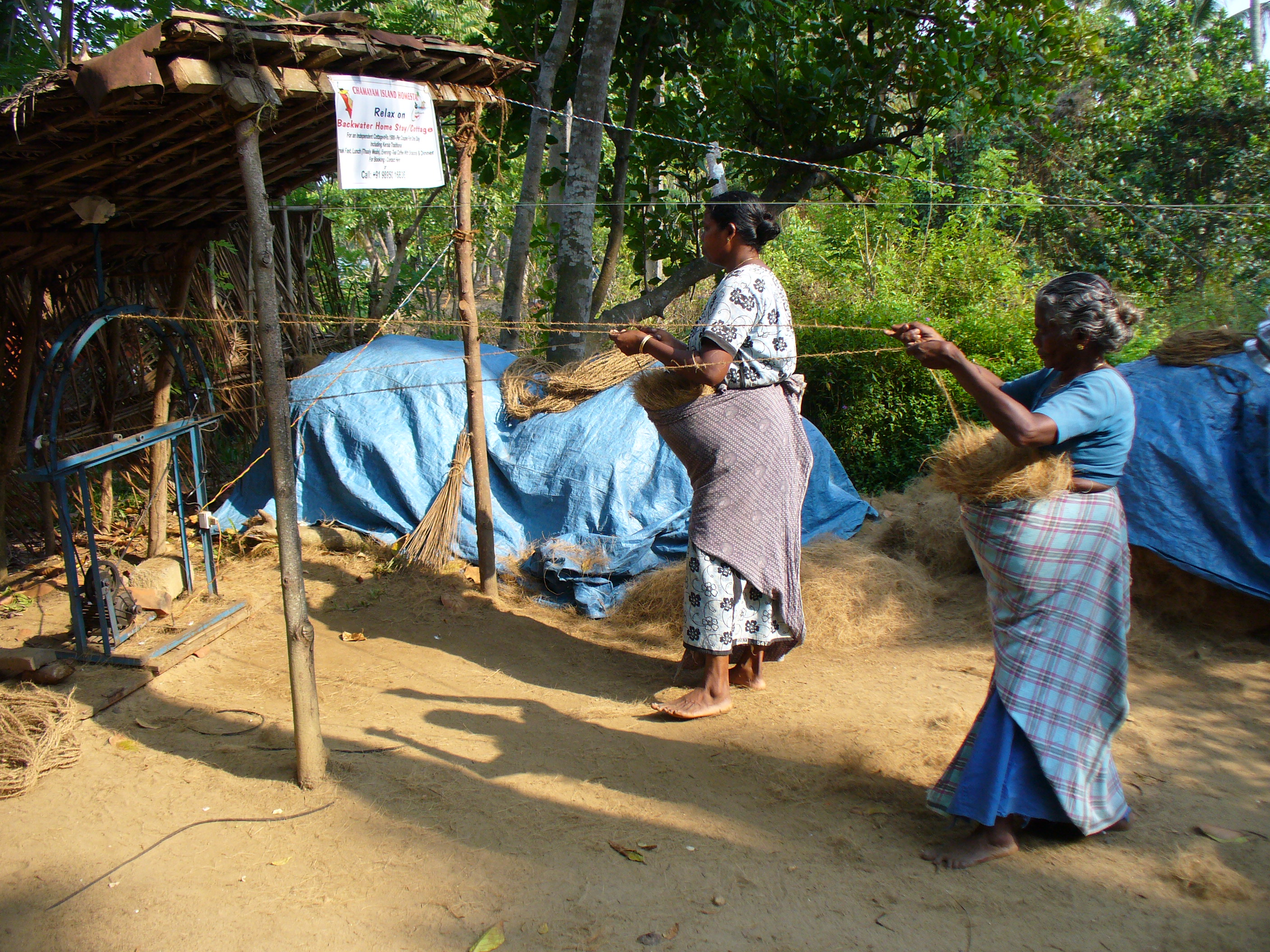 Public display by members of a cooperative making coir rope beside the backwaters near Kochi, Kerala, India. While the spindles are electrically operated, the women walk backwards about 30 metres each time, several hundred times a day, guiding the fibres through their hands from the baskets on their waists.